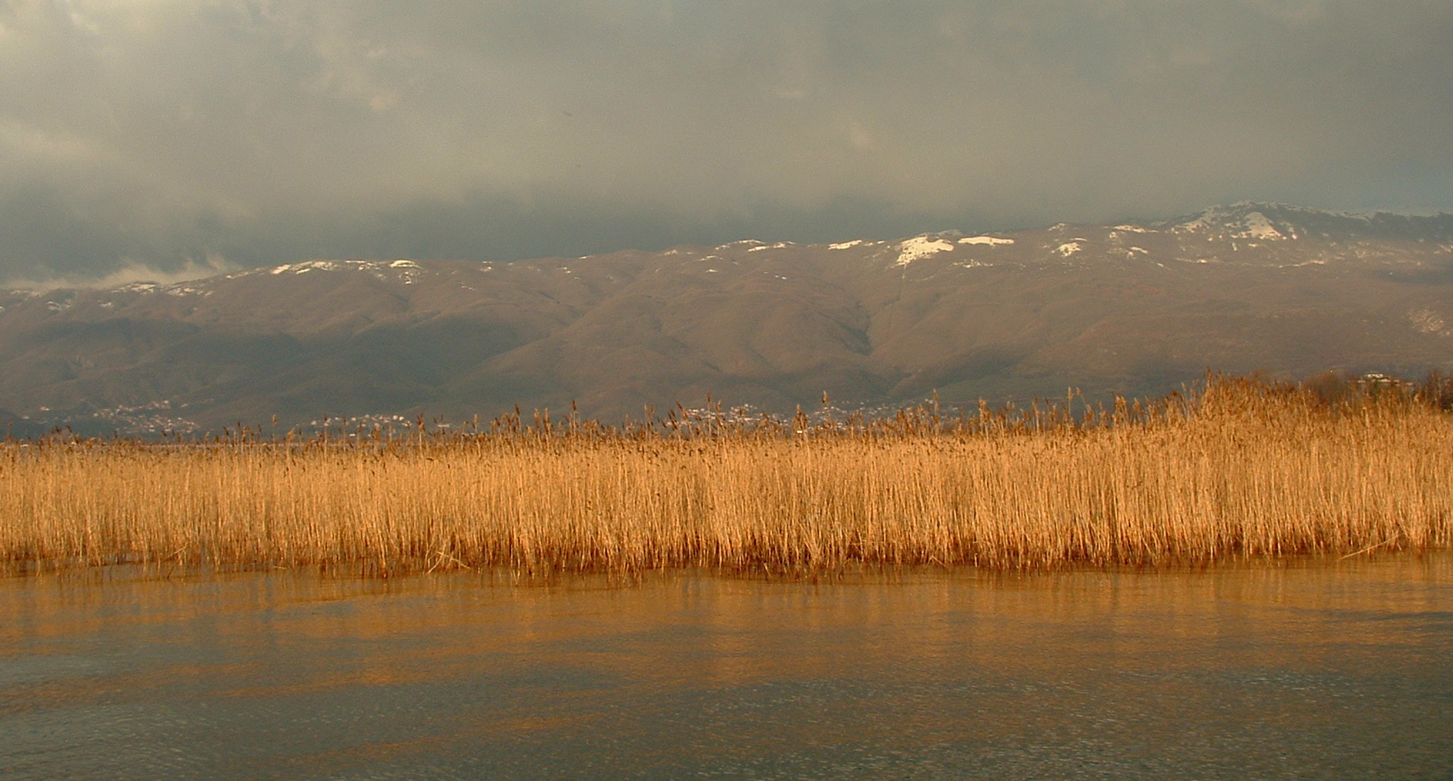 Lake Ohrid at Struga, Republic of Macedonia, March 2007